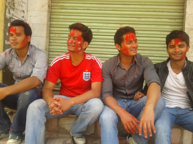 Kapilavastu